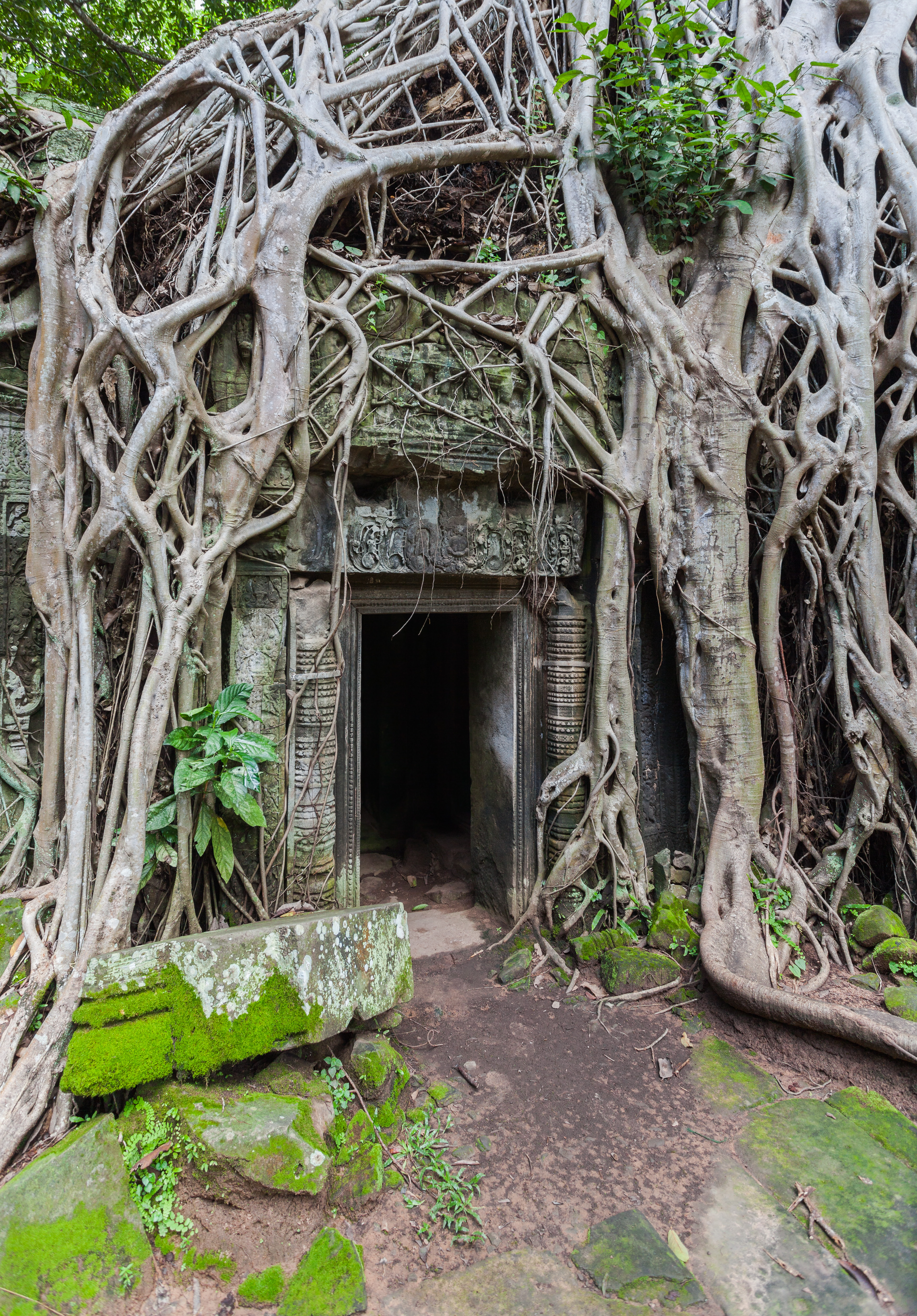 Door surrounded by roots of Tetrameles nudiflora in the Khmer temple of Ta Phrom, Angkor temple complex, located today in Cambodia. The temple Ta Phrom, of Bayon-style, was erected in the 12th century as a Buddhist monastery and university.